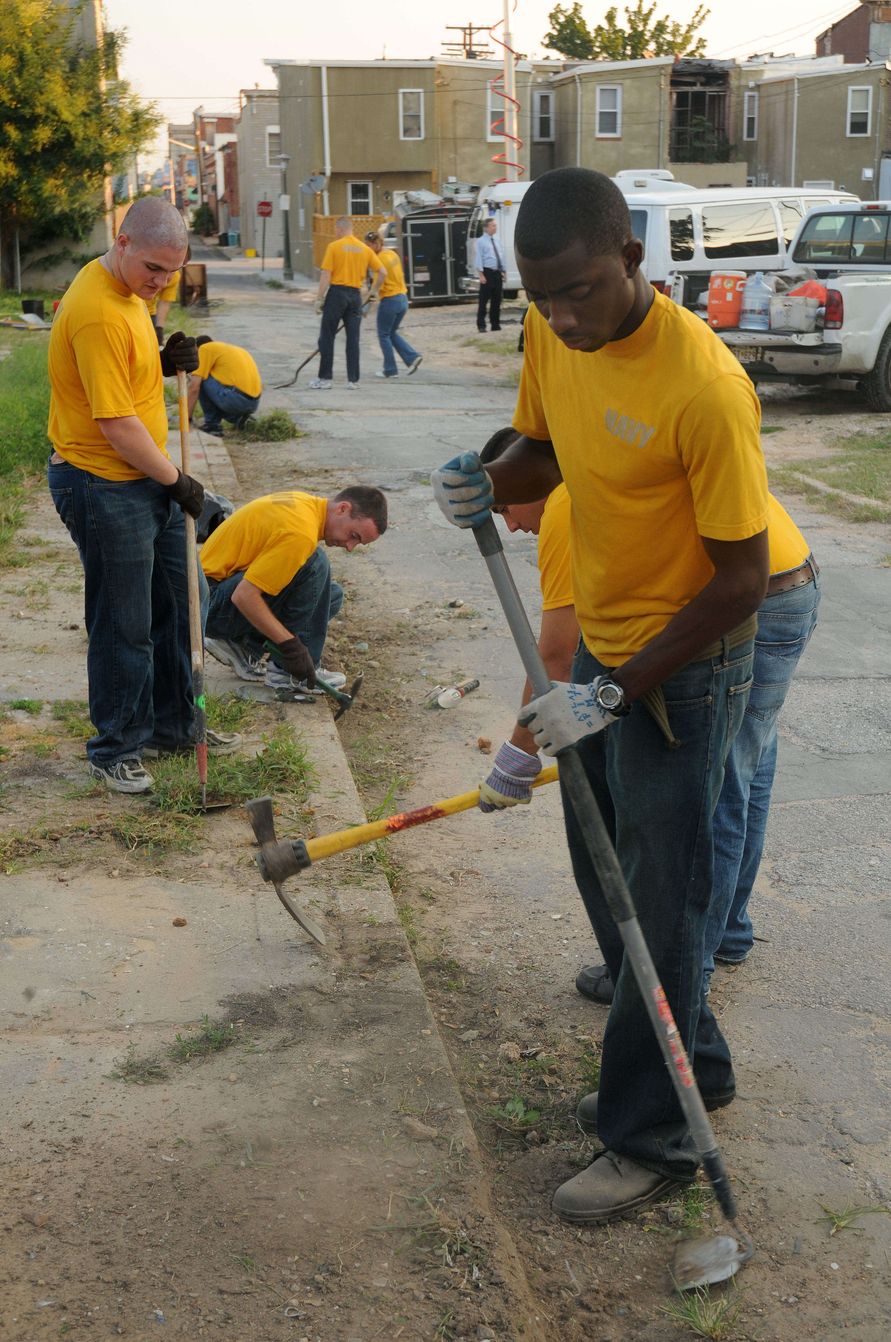 BALTIMORE (Aug. 31, 2010) Sailors from USS Constitution clean the streets of Baltimore's 400 block during a Baltimore Navy Week 2010 community service project. Baltimore Navy Week is one of 19 Navy Weeks planned for 2010. Navy Weeks are designed to show Americans the investment they have made in their Navy and increase awareness in cities that do not have a significant Navy presence. (U.S. Navy photo by Mass Communication Specialist 3rd Class Sean Gallagher/Released)